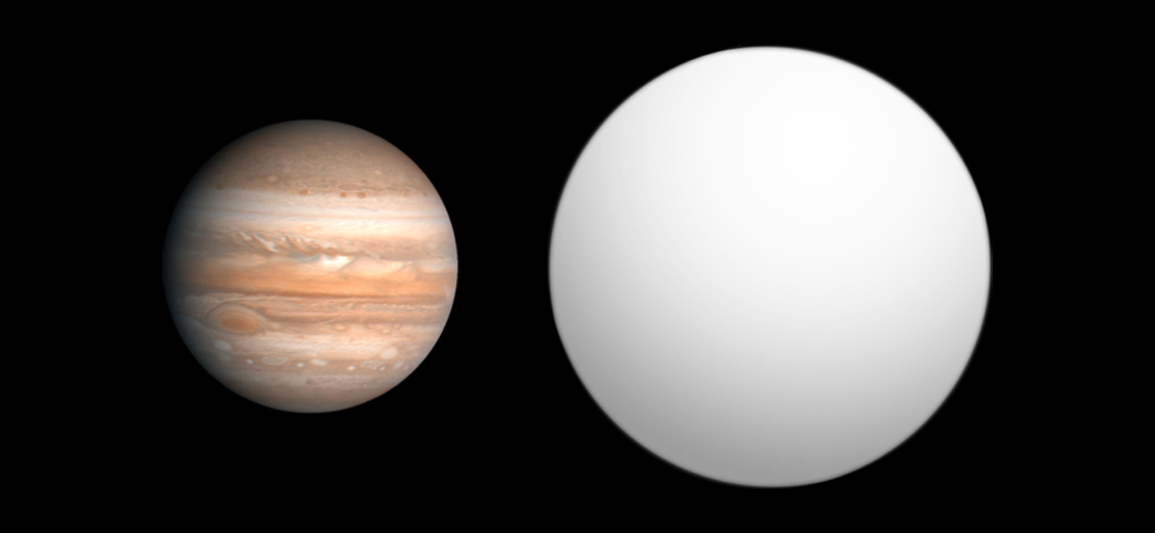 Comparison of best-fit size of the exoplanet HAT-P-8 b with the Solar System planet Jupiter, as reported in the Open Exoplanet Catalogue[1] as of 2015-11-14. ↑ Open Exoplanet Catalogue (2015-11-14). Retrieved on 2015-11-14.